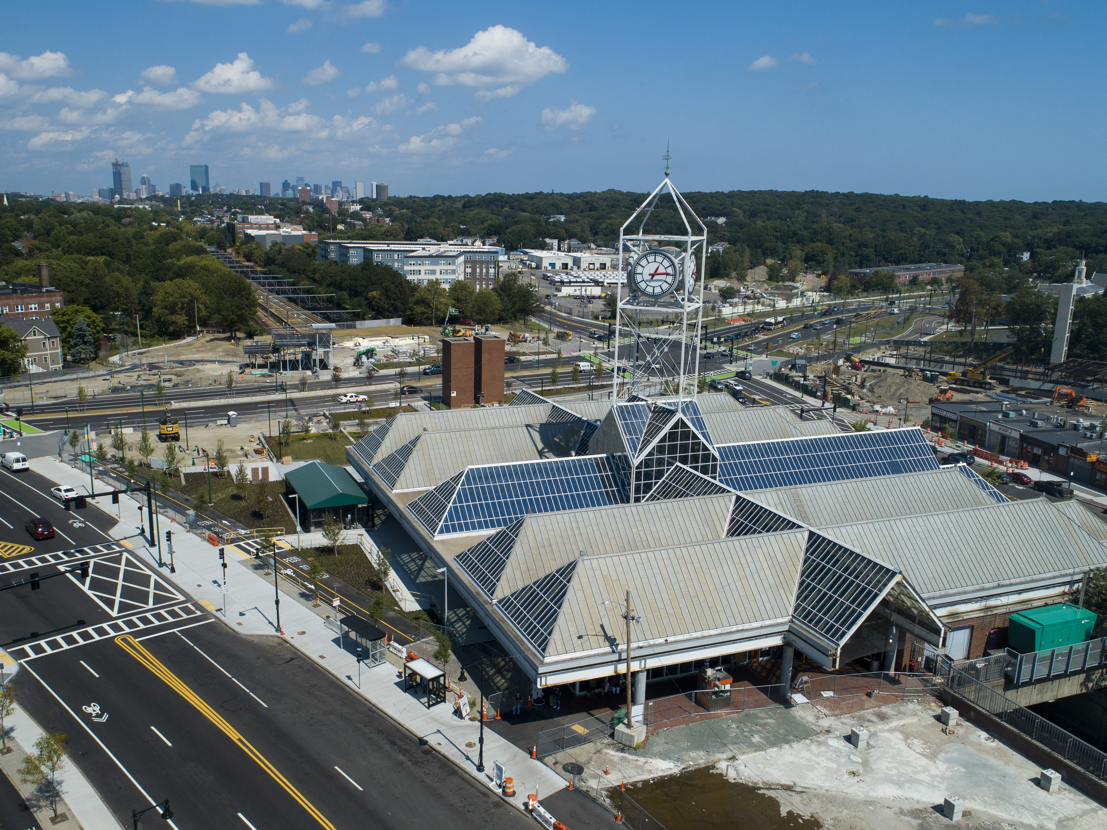 Aerial image of MBTA Forest Hills station taken 2018-09-03